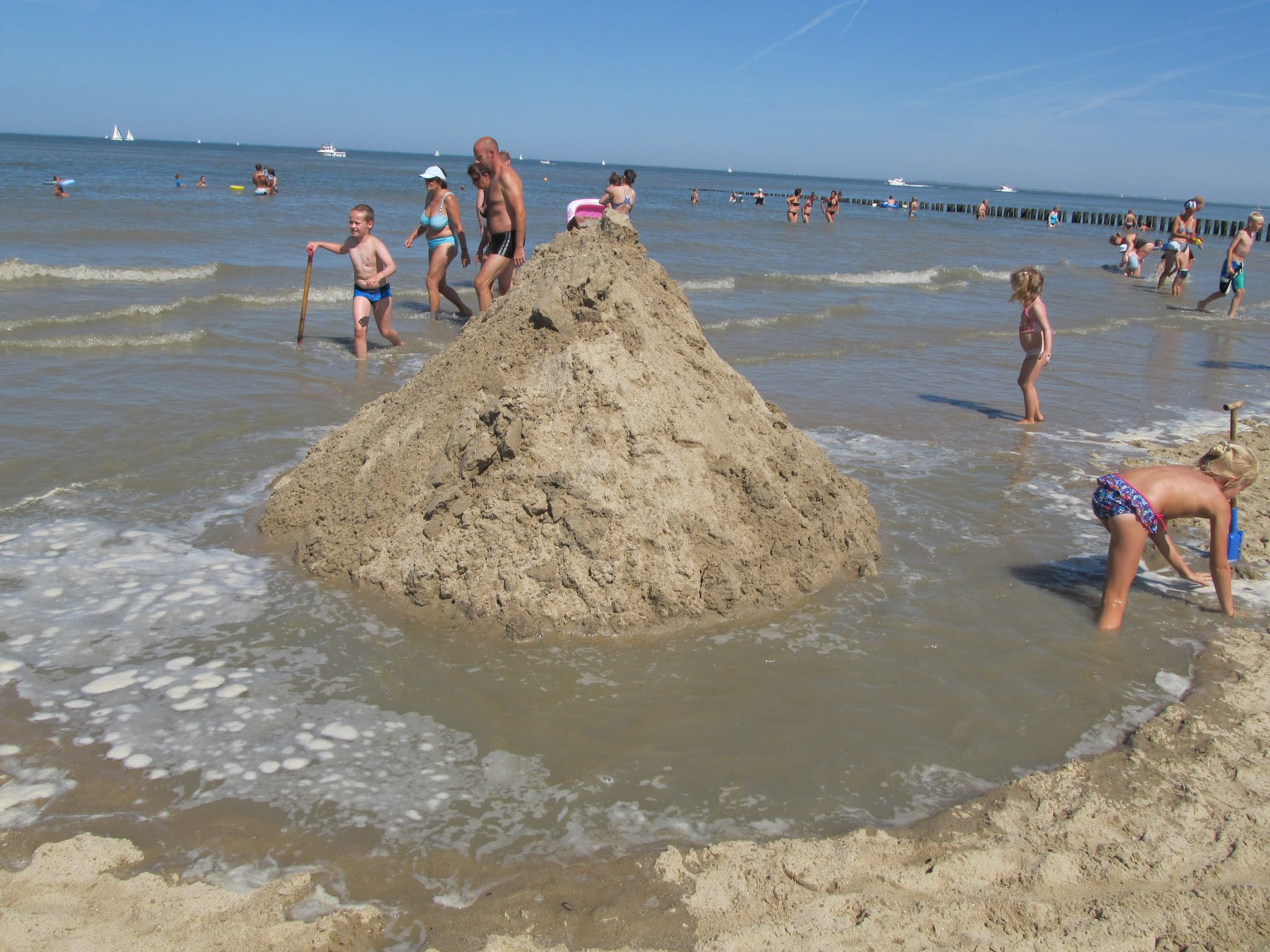 Opkomend tij in Cadzand (2)